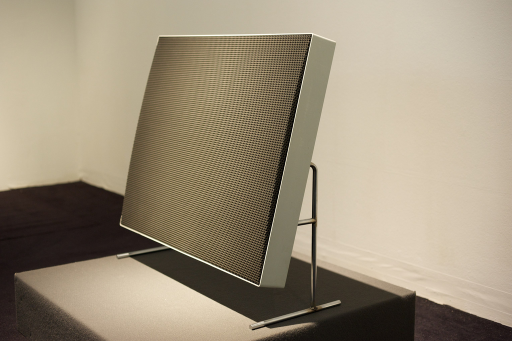 Elektrostatischer Lautsprecher LE1 Design: Dieter Rams, 1959